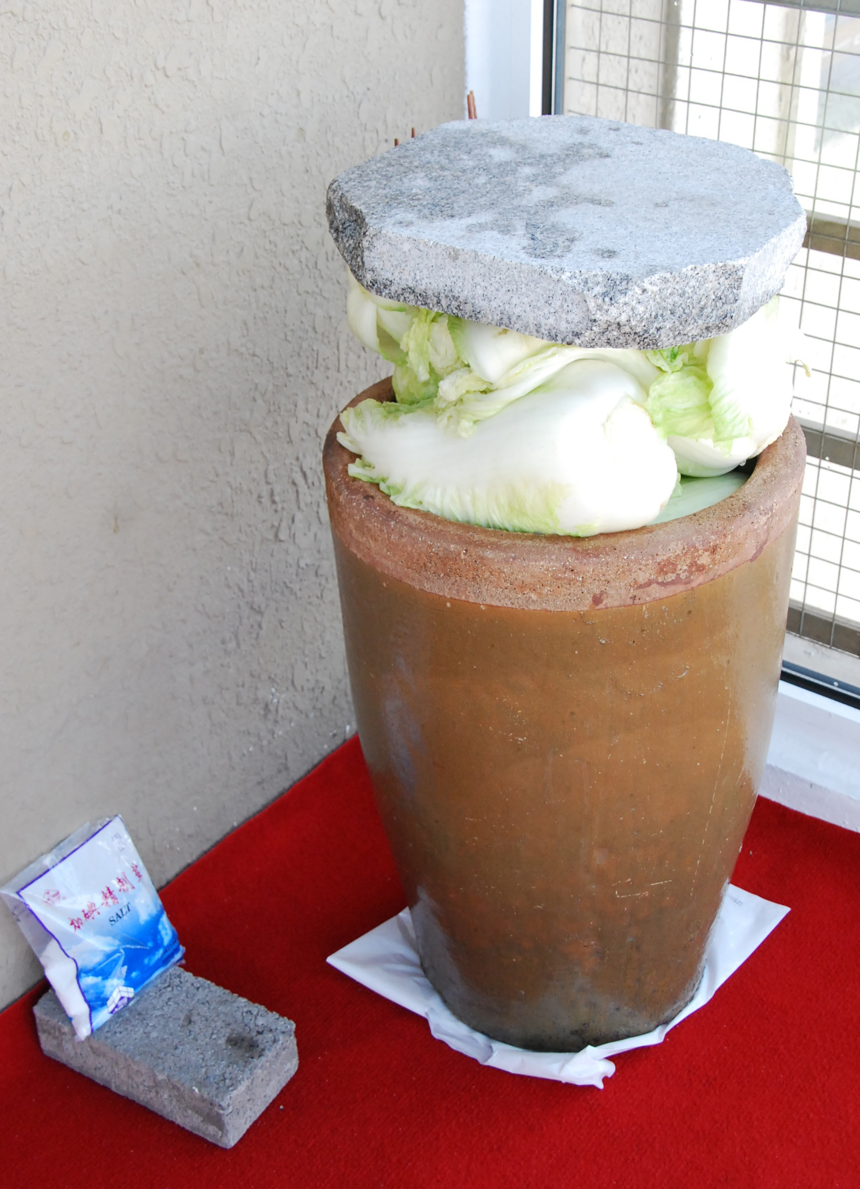 Suan cai, Chinese food